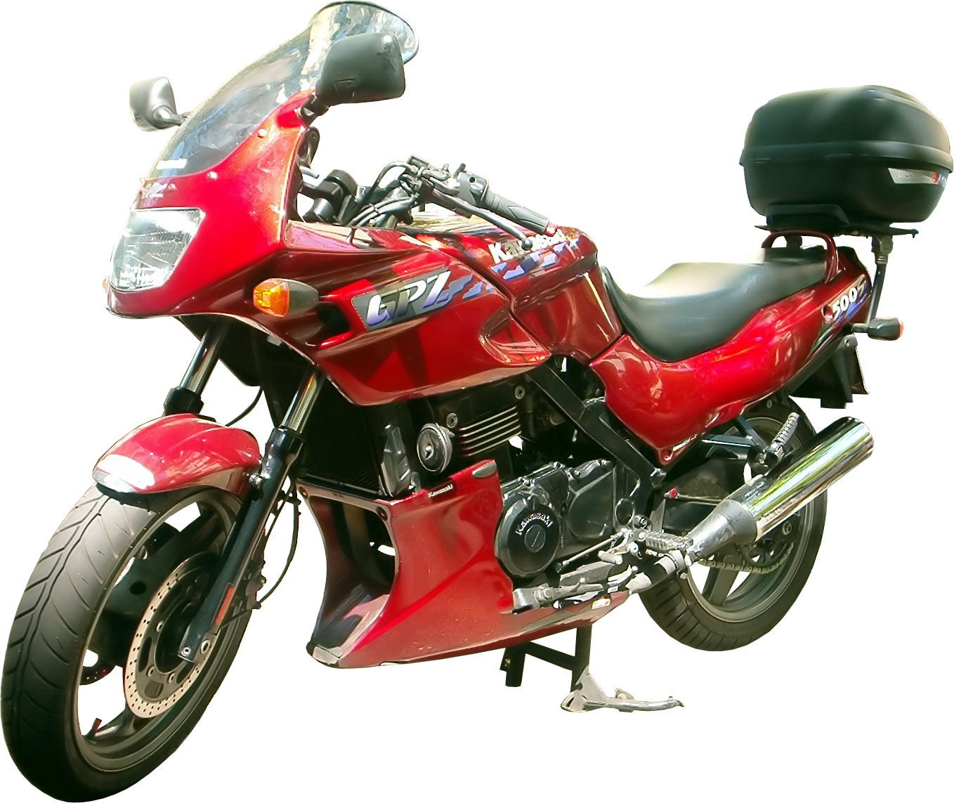 1994 Kawasaki GPZ 500 S (also known as EX 500 or Ninja 500) with top case and bigger windscreen.